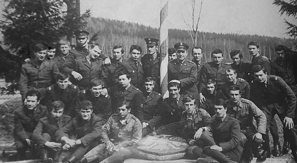 Border Protection Forces in Pokrzywna